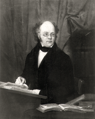 Photo of a portrait of Jan Frans Willems (1793-1846).